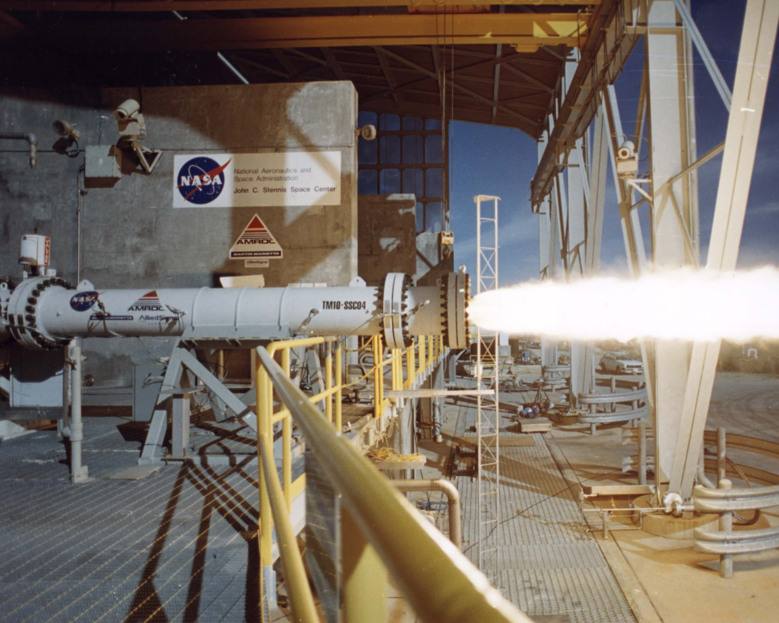 Stennis Space Center conducts a test on a 10,000 lbf thrust hybrid rocket motor fed by a liquid oxygen turbopump in 1994. The test occurred at the E-1 test facility.